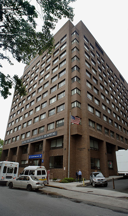 The exterior of Long Island College Hospital, Brooklyn, New York.